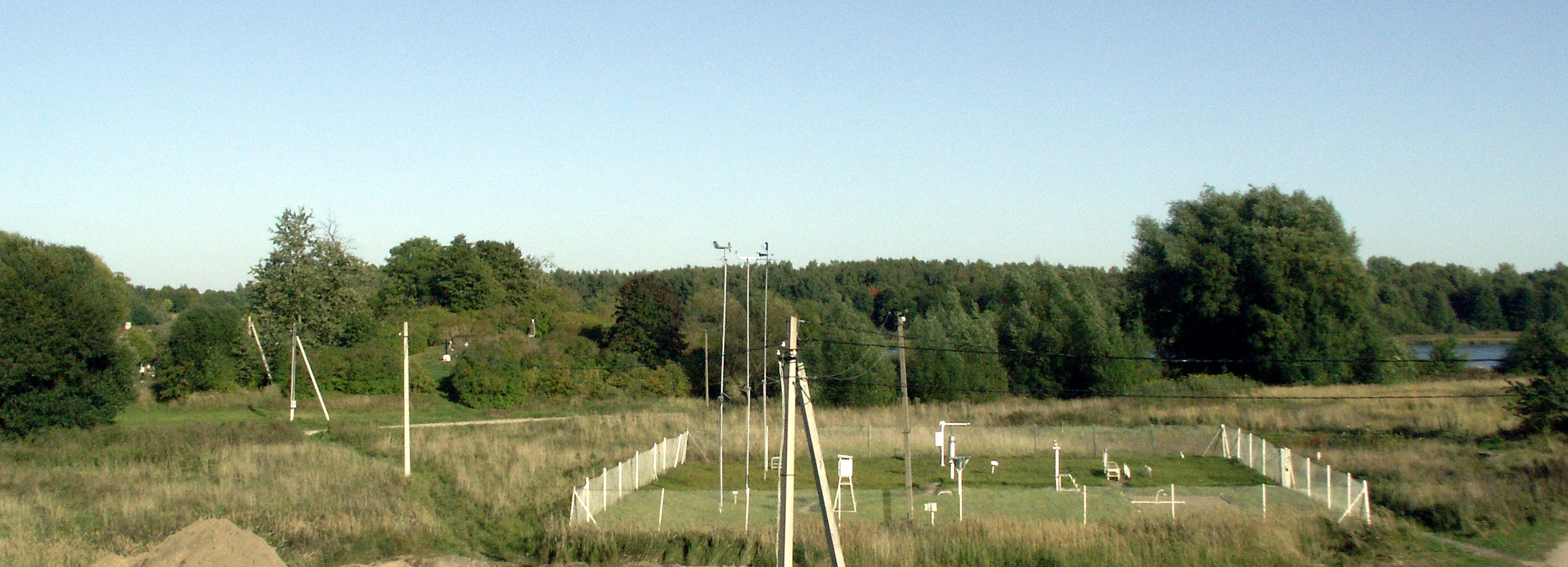 Lutheran cemetery in Šiauliai, Lithuania